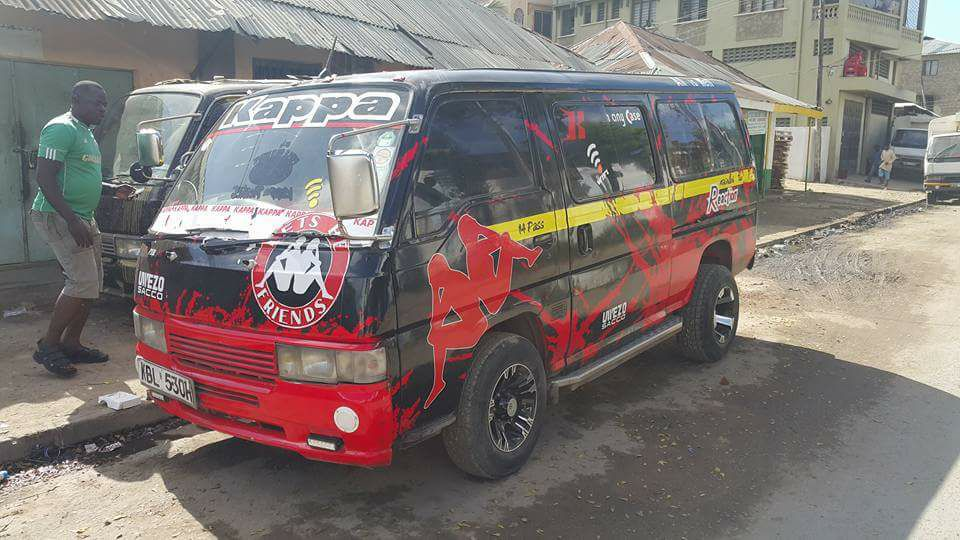 bus culture in Kenya This is an image of "African people at work" from Kenya